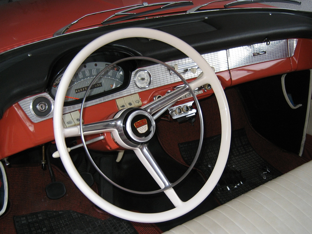 FORD Taunus 17M P2(TL) deLuxe Two door 1958 Steering wheel